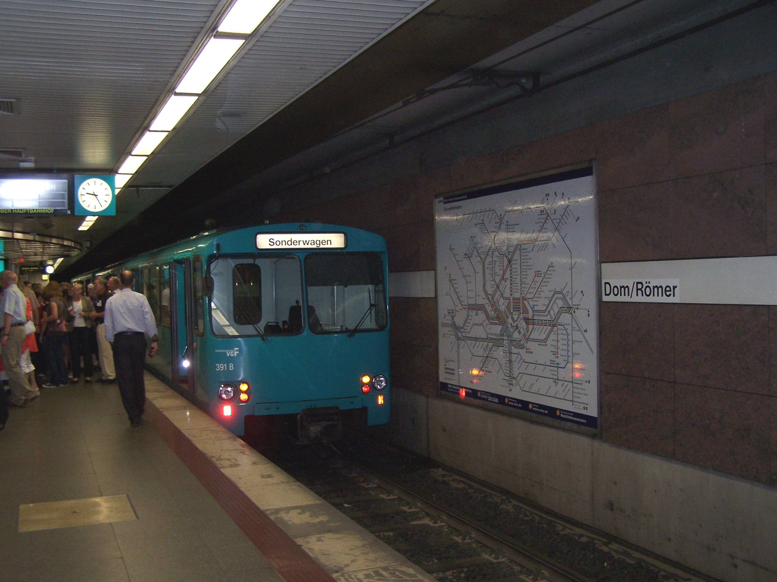 DUEWAG U2 type, station Dom/Römer, B line (Frankfurt), Direction Hauptbahnhof/Bockenheimer Warte